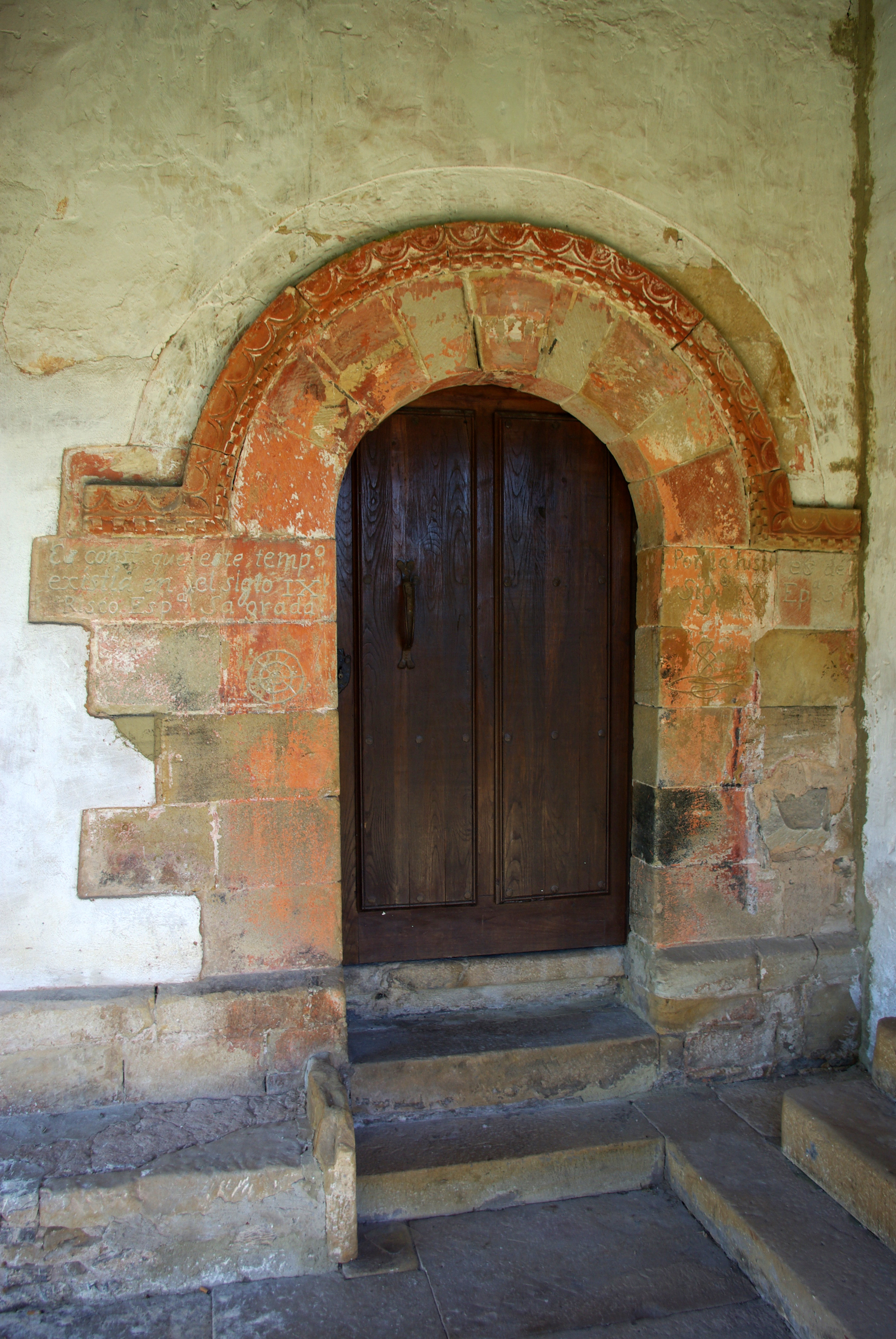 Saint Mary church in Sariegomuerto, Villaviciosa (Asturias, Spain).